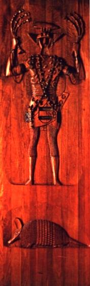 Inlè-Ibualama ou Erinlè - sculpture of Carybé in wood, exibit in the Museum Afro-Brazilian, Salvador, Bahia, Brasil